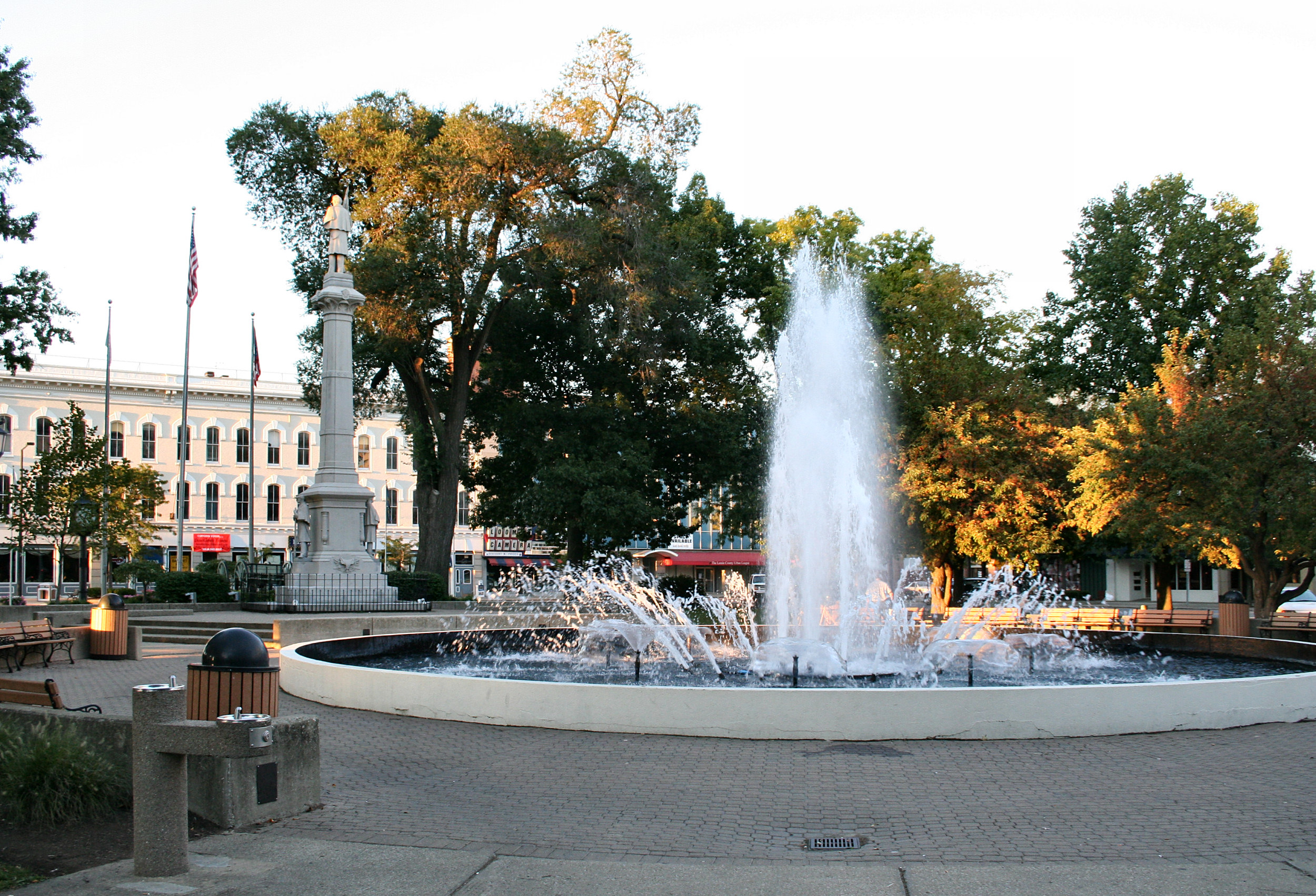 Ely Park in Elyria, Ohio, United States, with fountain and Civil War memorial. This sculpture was created by Joseph Carabelli (1850-1911), and erected in 1888 (See: Civil War Memorial; Elyria, OH, Ohio Outdoor Sculpture Inventory).